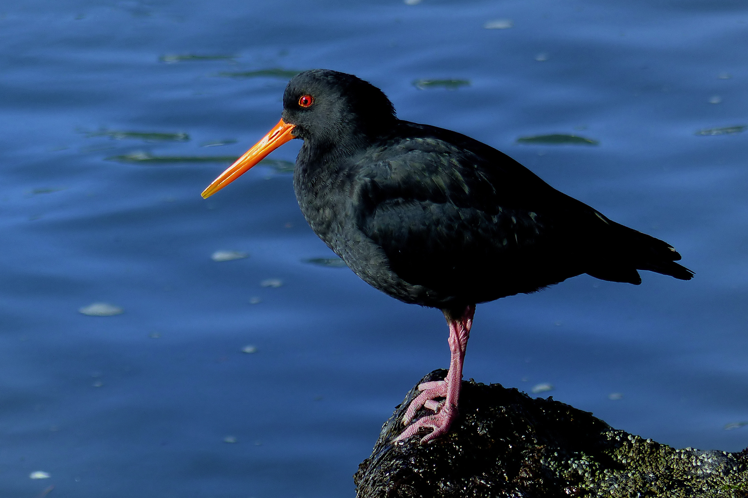 The variable oystercatcher (Haematopus unicolor, torea or toreapango) is found on rocky and sandy beaches. It is rare – there were around 3,500 birds in 1994, and they are found only in New Zealand. Also known as the black oystercatcher, it varies from black and white to pure black, which is more common further south. It has a red bill and red-orange eye-ring, and pink legs. Larger than the pied oystercatcher, it measures 48 centimetres and weighs 725 grams.